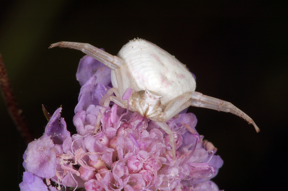 cf. Thomisus onustus, Valle Maggia, Ticina, Switzerland